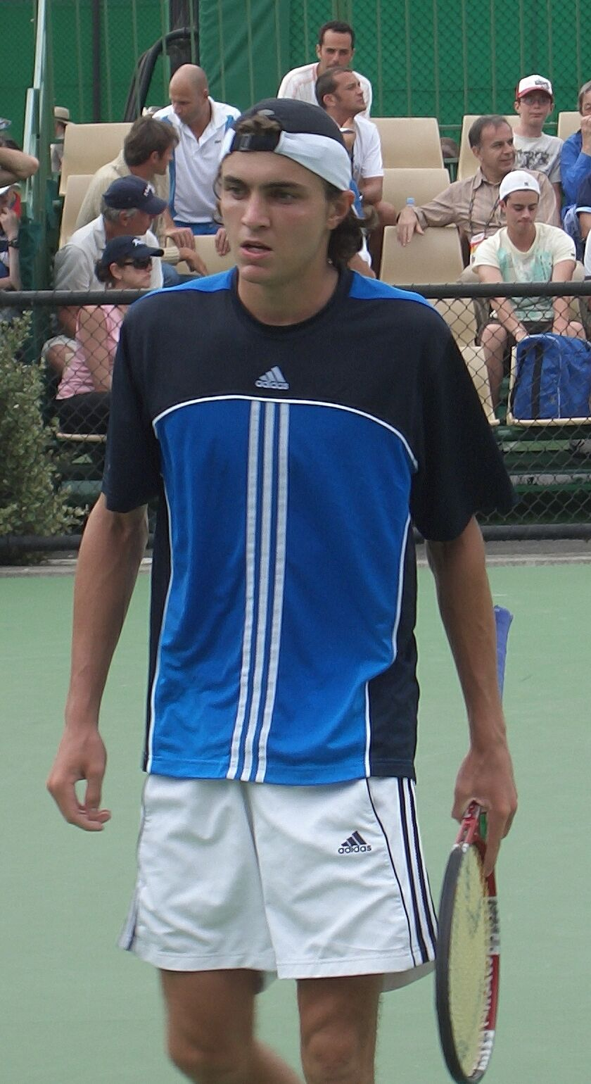 Gilles Simon at his first-round match of the 2006 Australian Open. He played Nicolás Massú. Simon won.